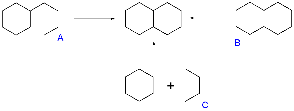 Annulation Strategies